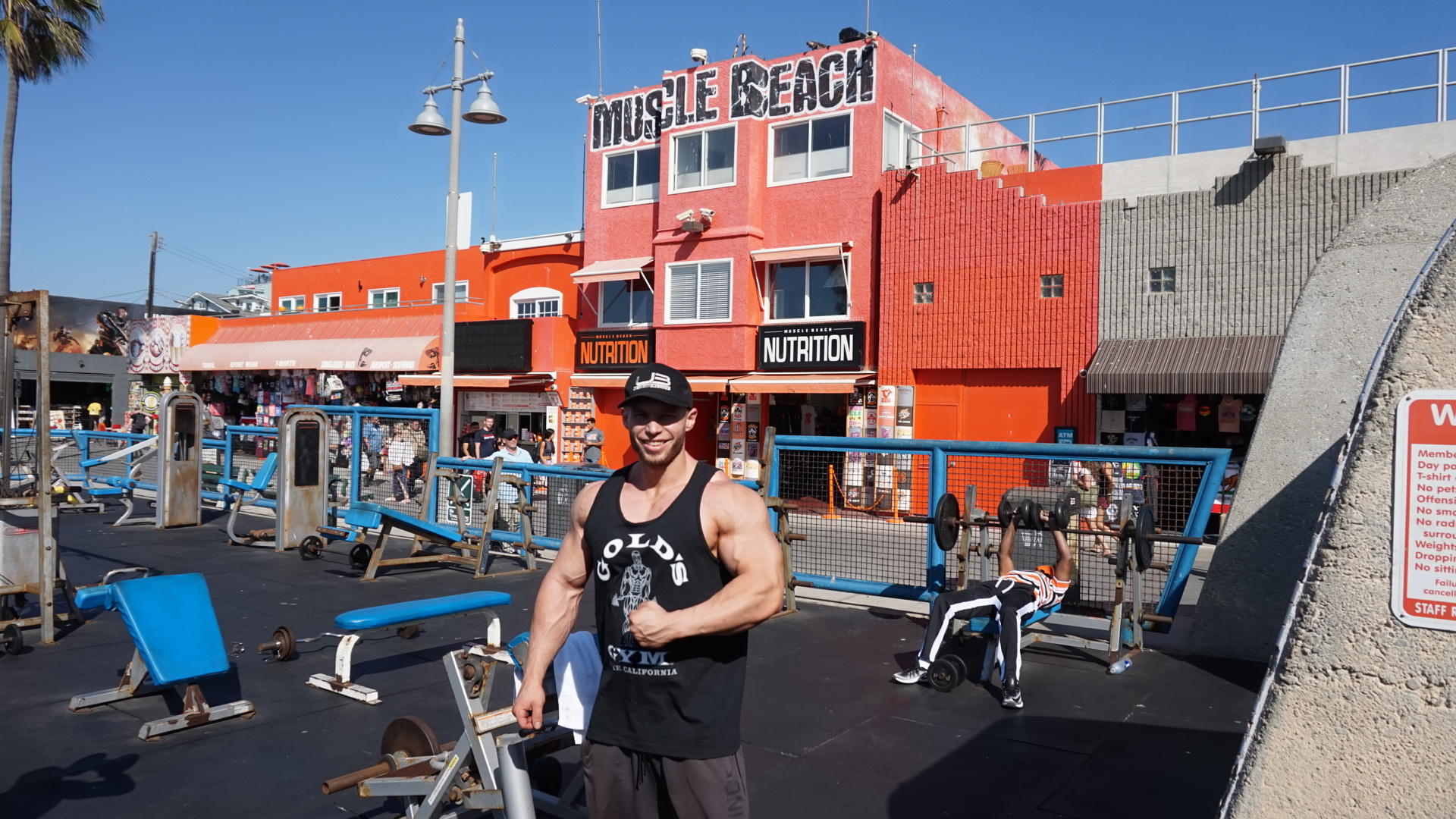 Workout posing MUSCLE BEACH